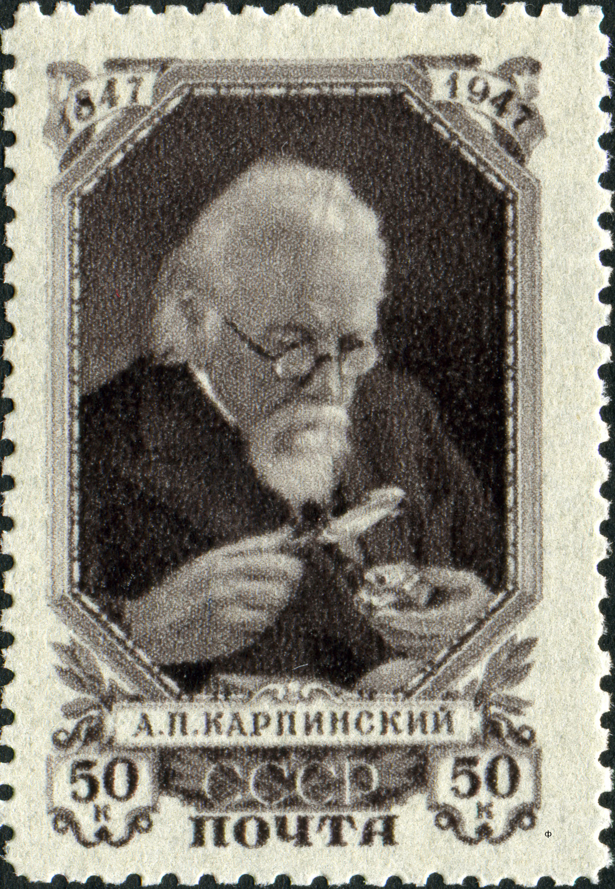 Scan of a 1947 stamp of the U.S.S.R. showing Aleksandr Petrovich Karpinsky, geologist and mineralogist, CPA catalog #1104